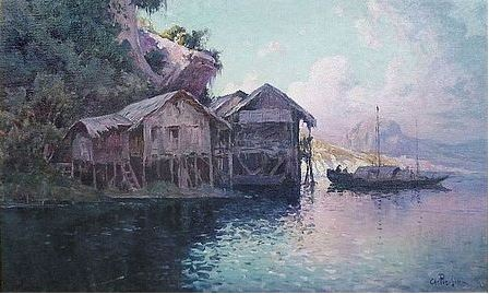 Sampans Near Ha Long